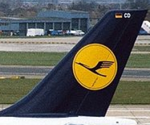 A cropped photograph of a Lufthansa Boeing 737-500.